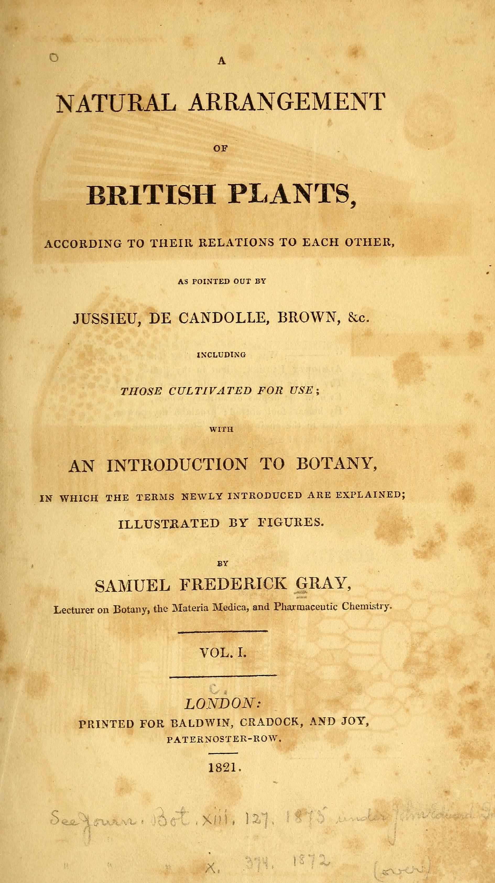 Title page of S.F. Gray's Natural arrangement of British plants (1821)